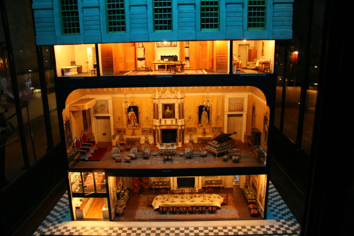 Camera's not allowed....yawn. Snuck this shot in. The dolls house had an amazing amount of detail in it, real silver plates on the table etc. View at full size to see the detail (I should have got something else in frame to give it some perspective)